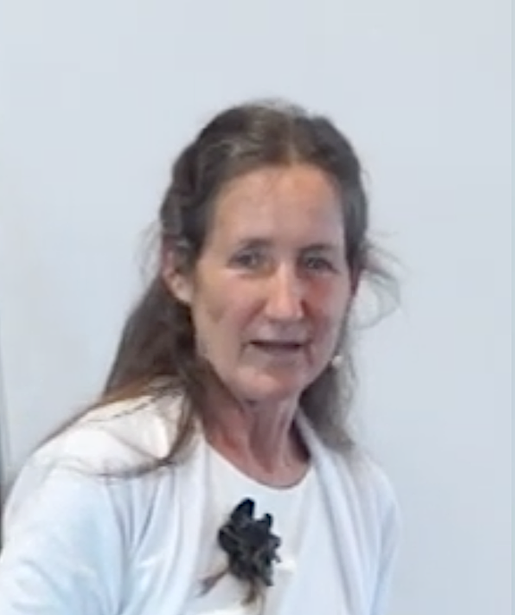 Barbara O'Neill (Australian Naturopath) Common Sense Health Series training.